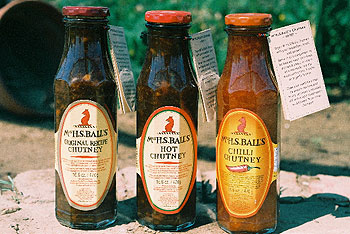 Mrs Ball Chutney, three main flavours